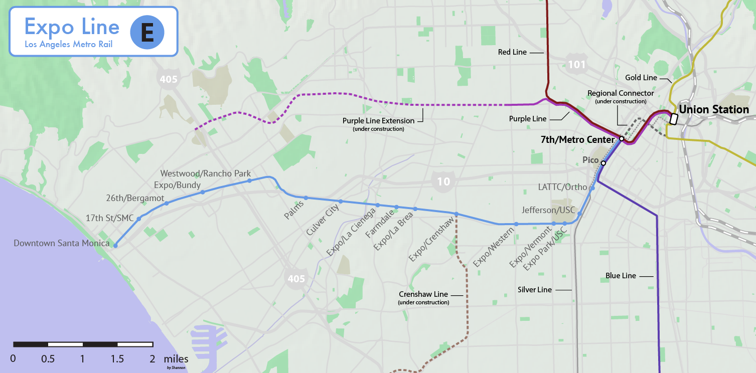 Map of the Expo line in the Los Angeles Metro system, showing all stations. Created in Adobe Illustrator, using USGS National Map and Natural Earth data. Dashed lines indicate areas under construction (as of November 2017). Street running section of Silver Line in downtown is shown as dotted line.